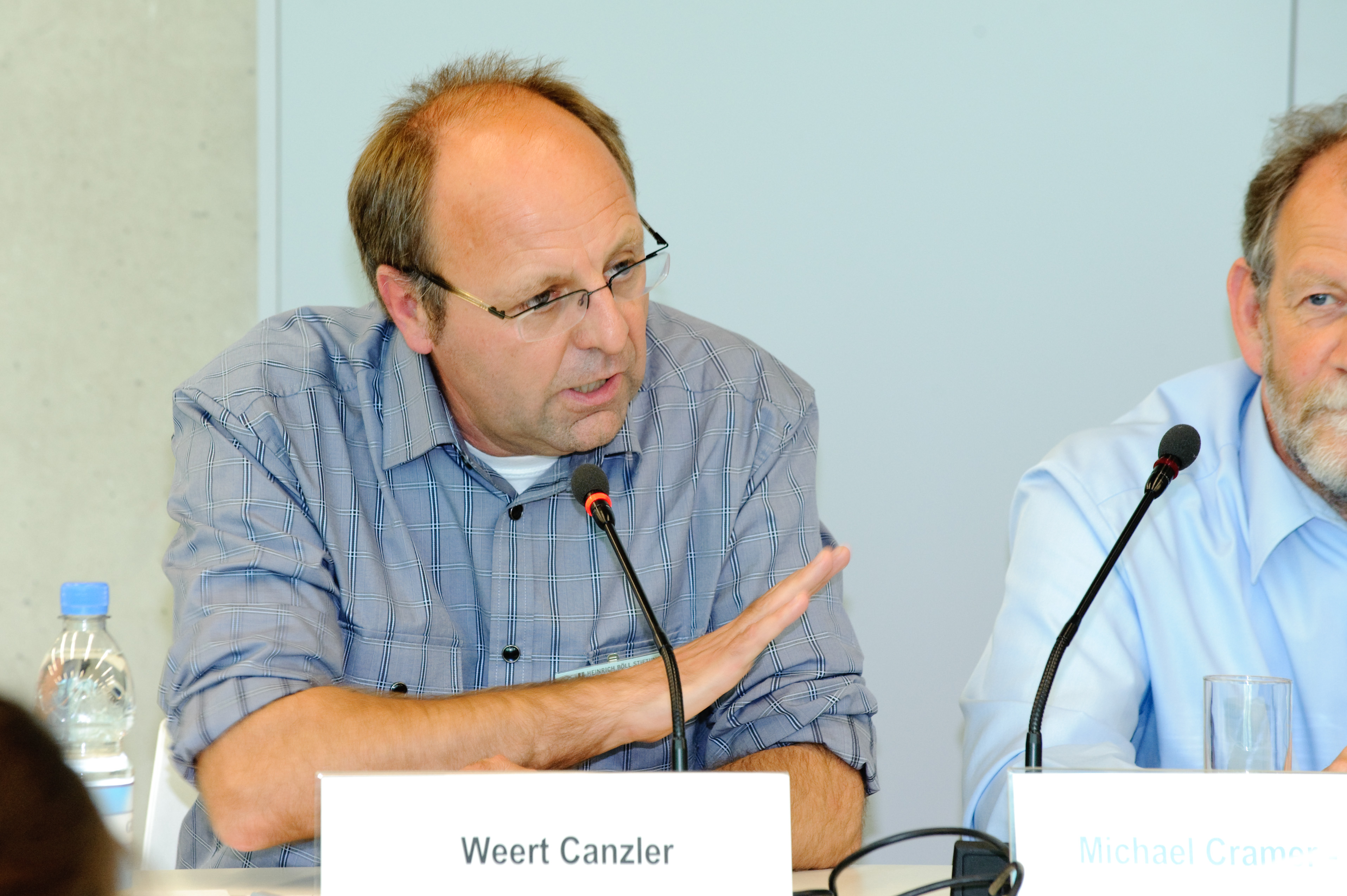 Foto: Stephan Röhl